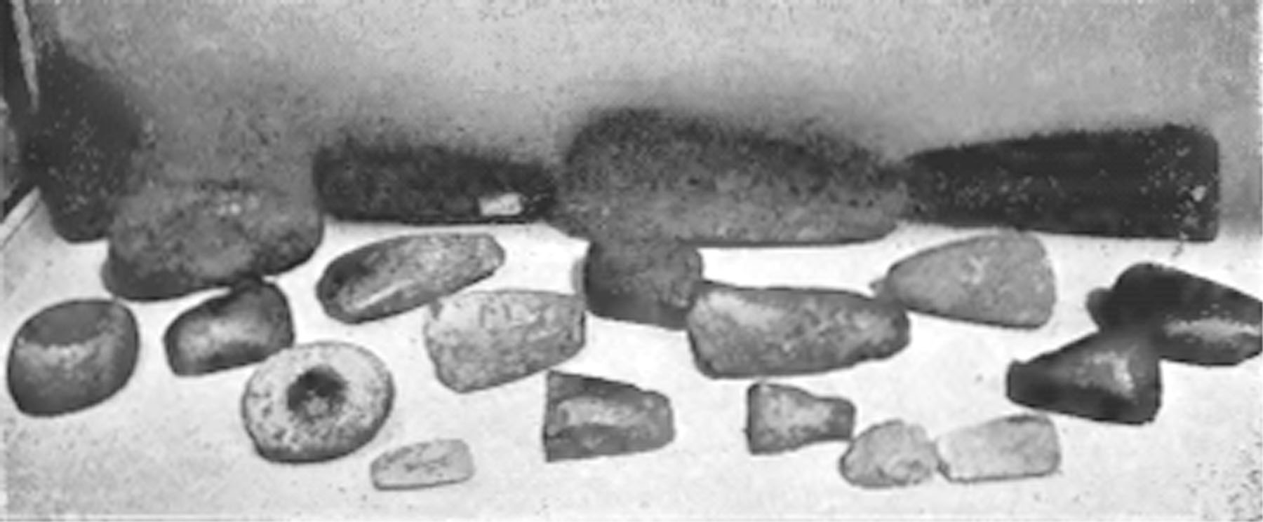 Bronze Age polished stone implements, Isle of Man